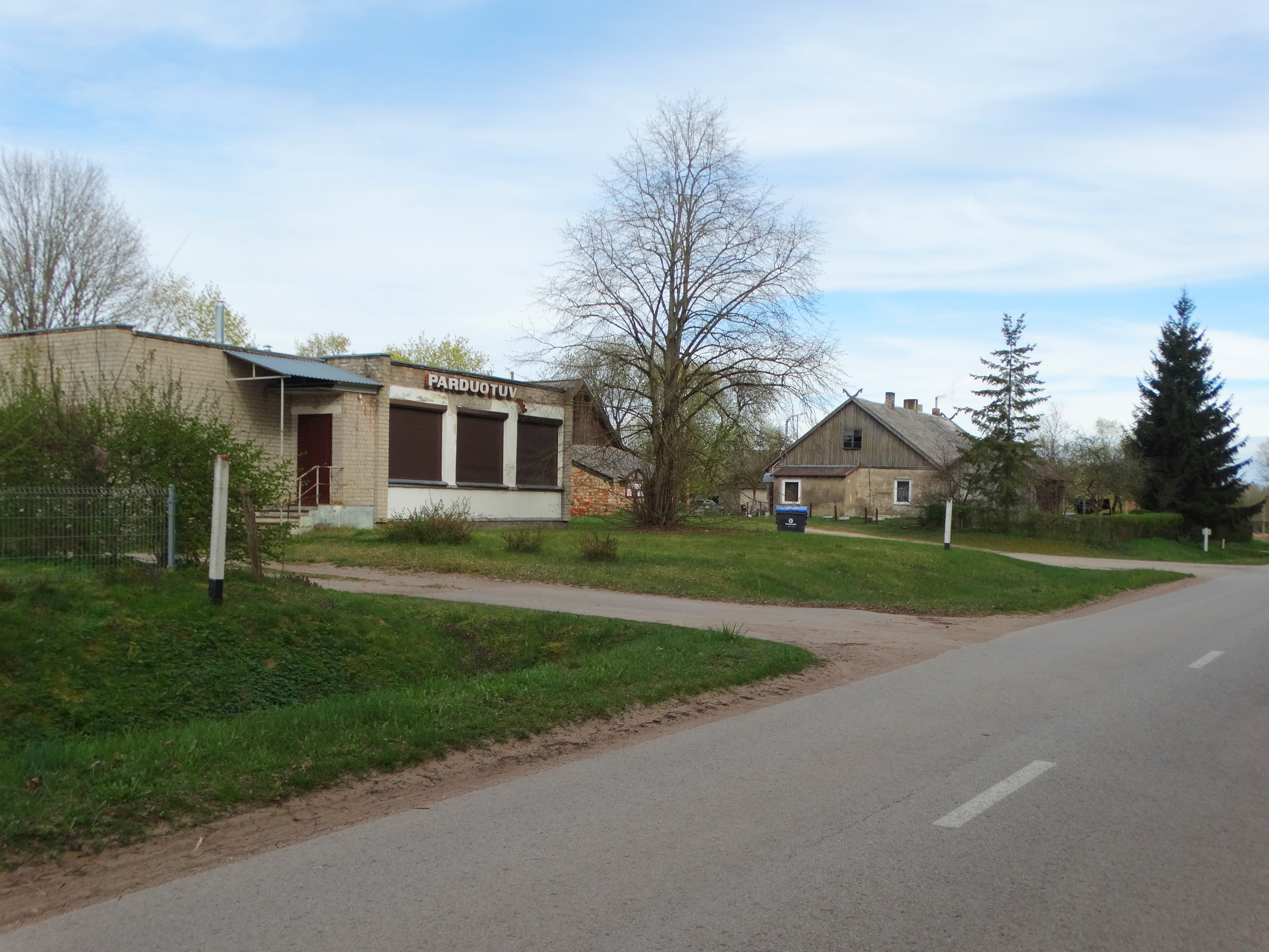 Bardėnai, Pagėgiai Municipality, Lithuania